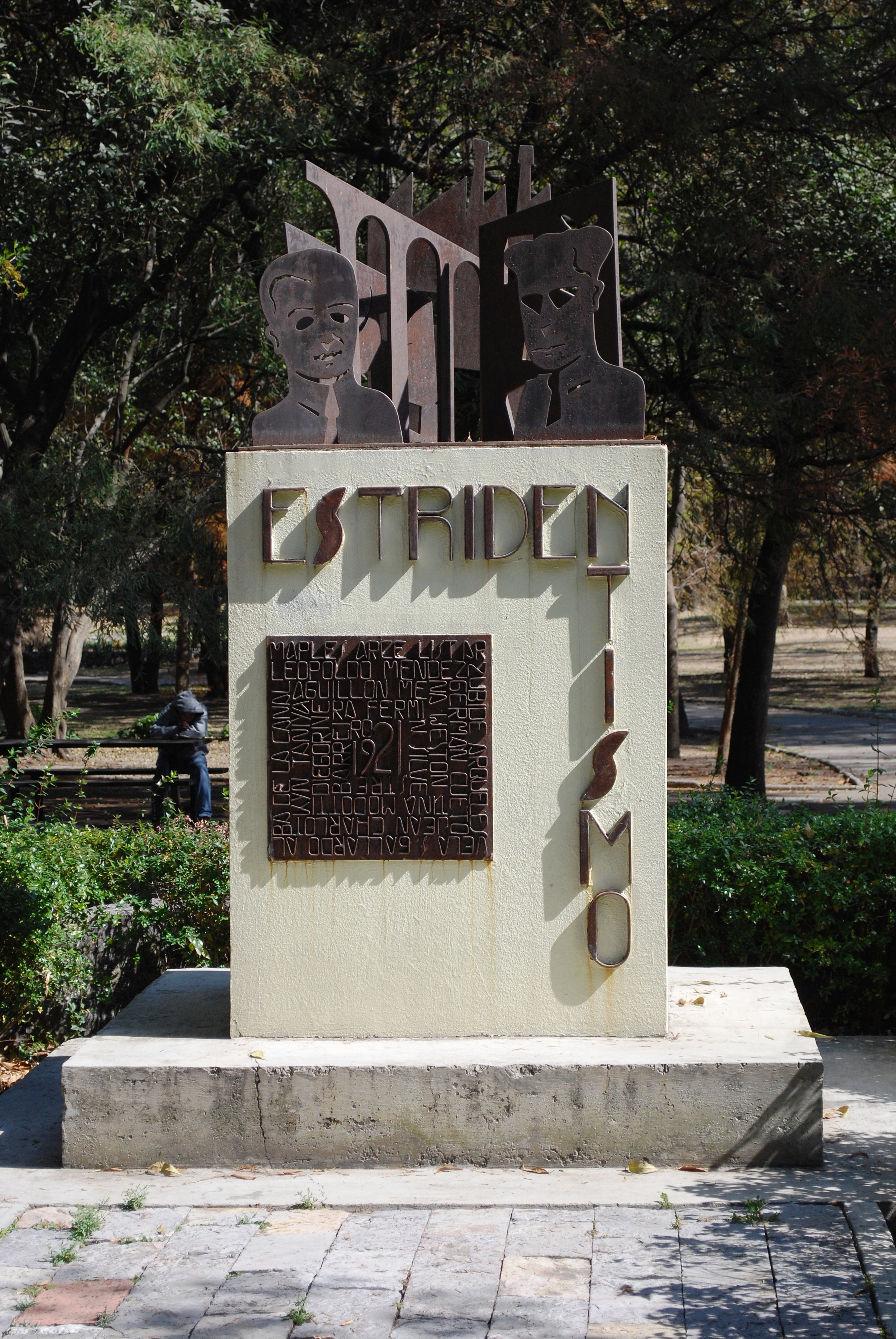 Monument to Estridentismo on the Calzada de Poetas in Chapultepec Park, Mexico City